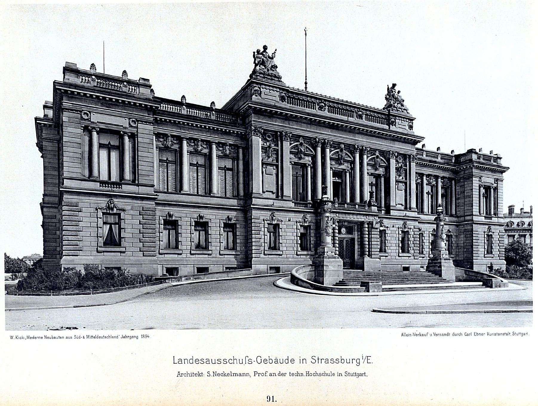 Landesausschuss-Gebäude in Straßburg, Architekt S. Neckelmann, Prof. an der TH Stuttgart, Tafel 91, Kick Jahrgang I